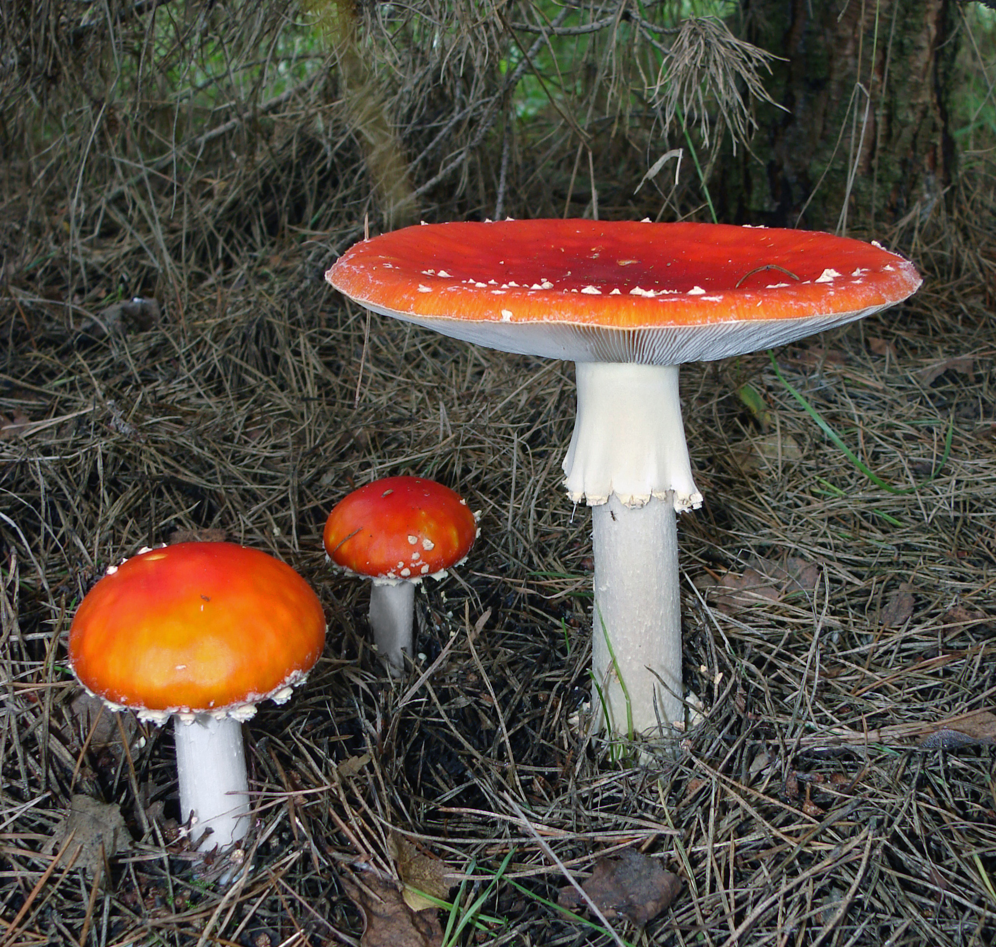 Fly agaric